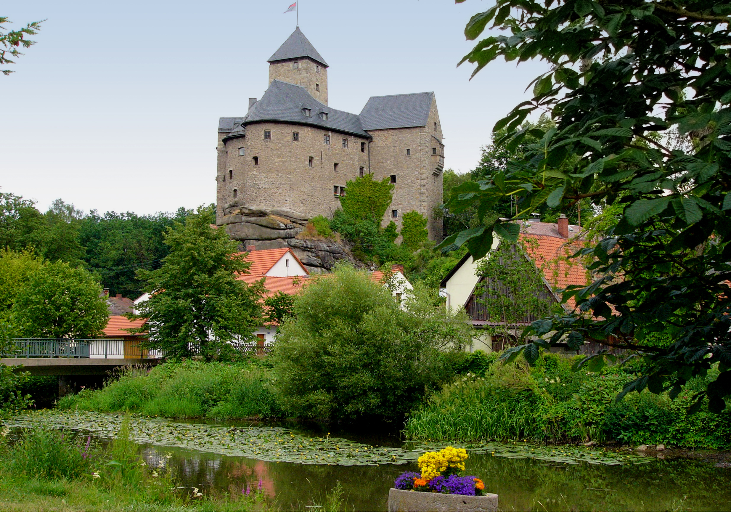 Castle Falkenberg is situated within the village Falkenberg, Bavaria, Germany.